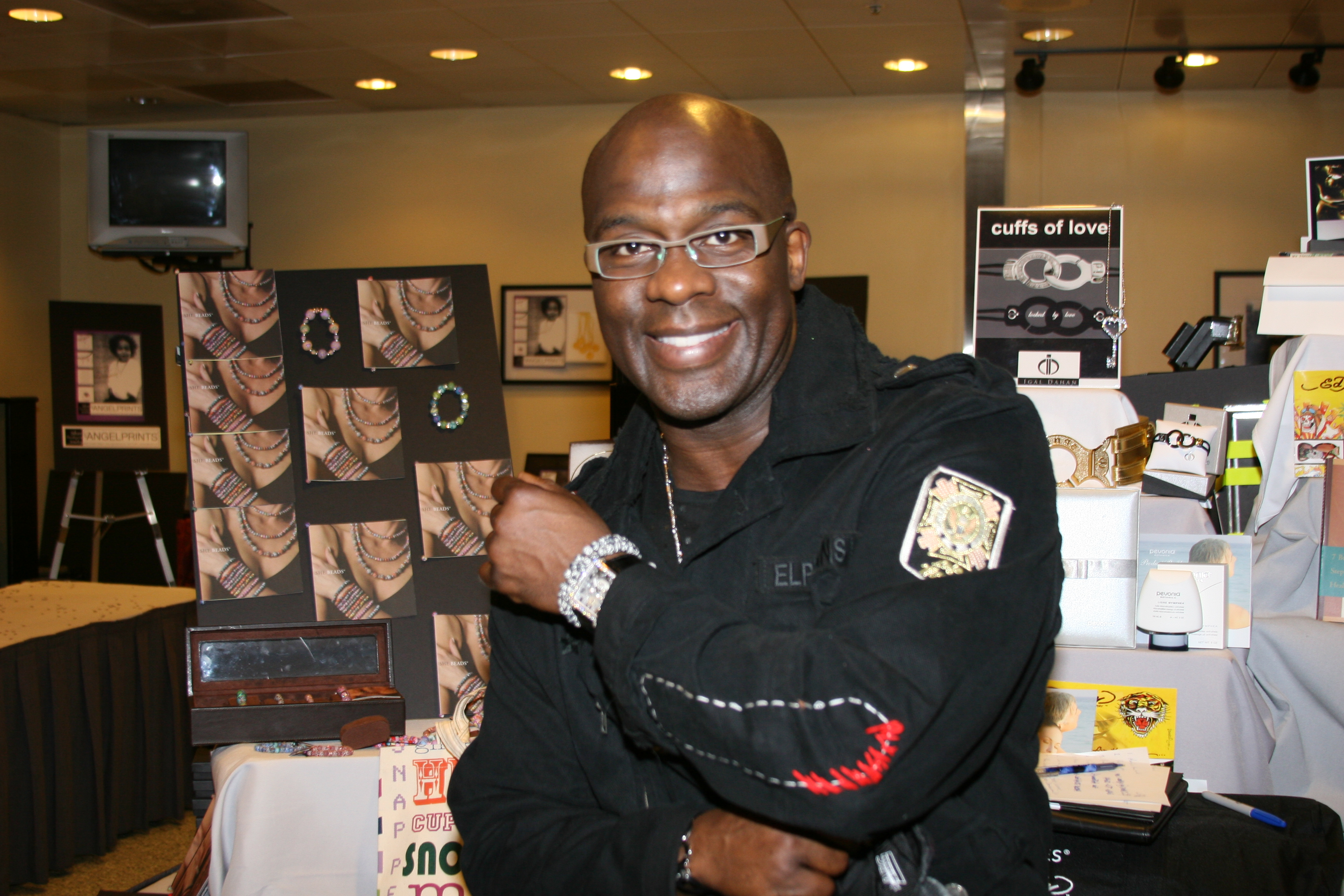 Benjamin "Bebe" Winans wearing his He Bead bracelet. Taken by Dennis Stafford, PR and Marketing of She Beads Company. This photo was shot at the Grammy's 2008 Person of the Year honoring Aretha Franklin in the She Beads gift boutique.